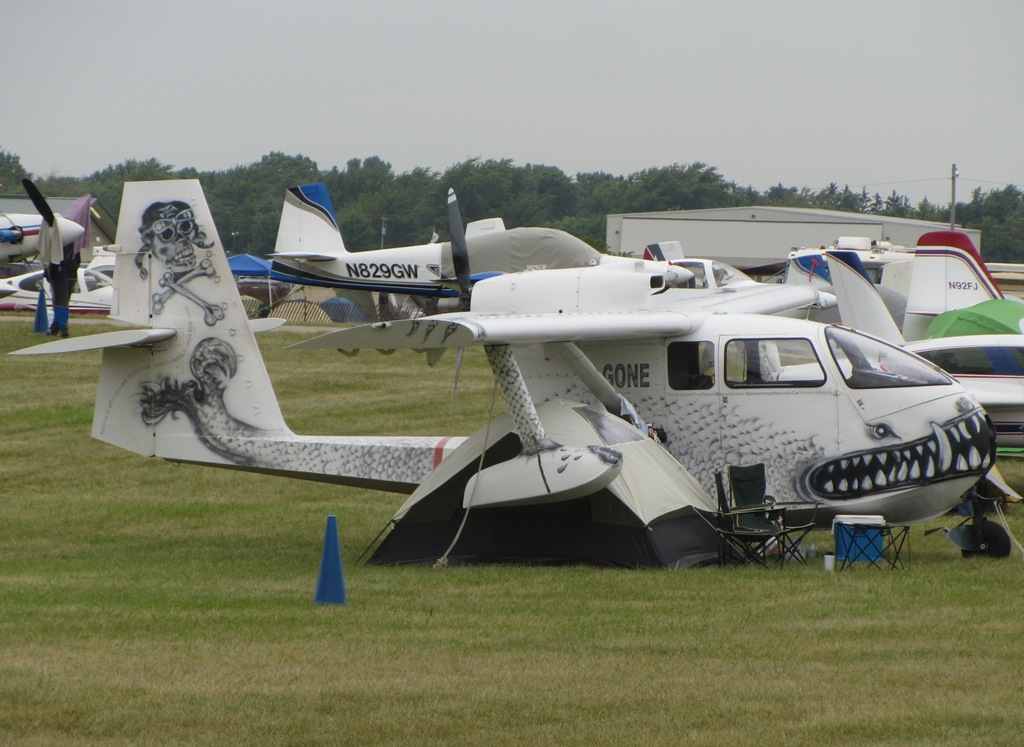 Spencer S-12E